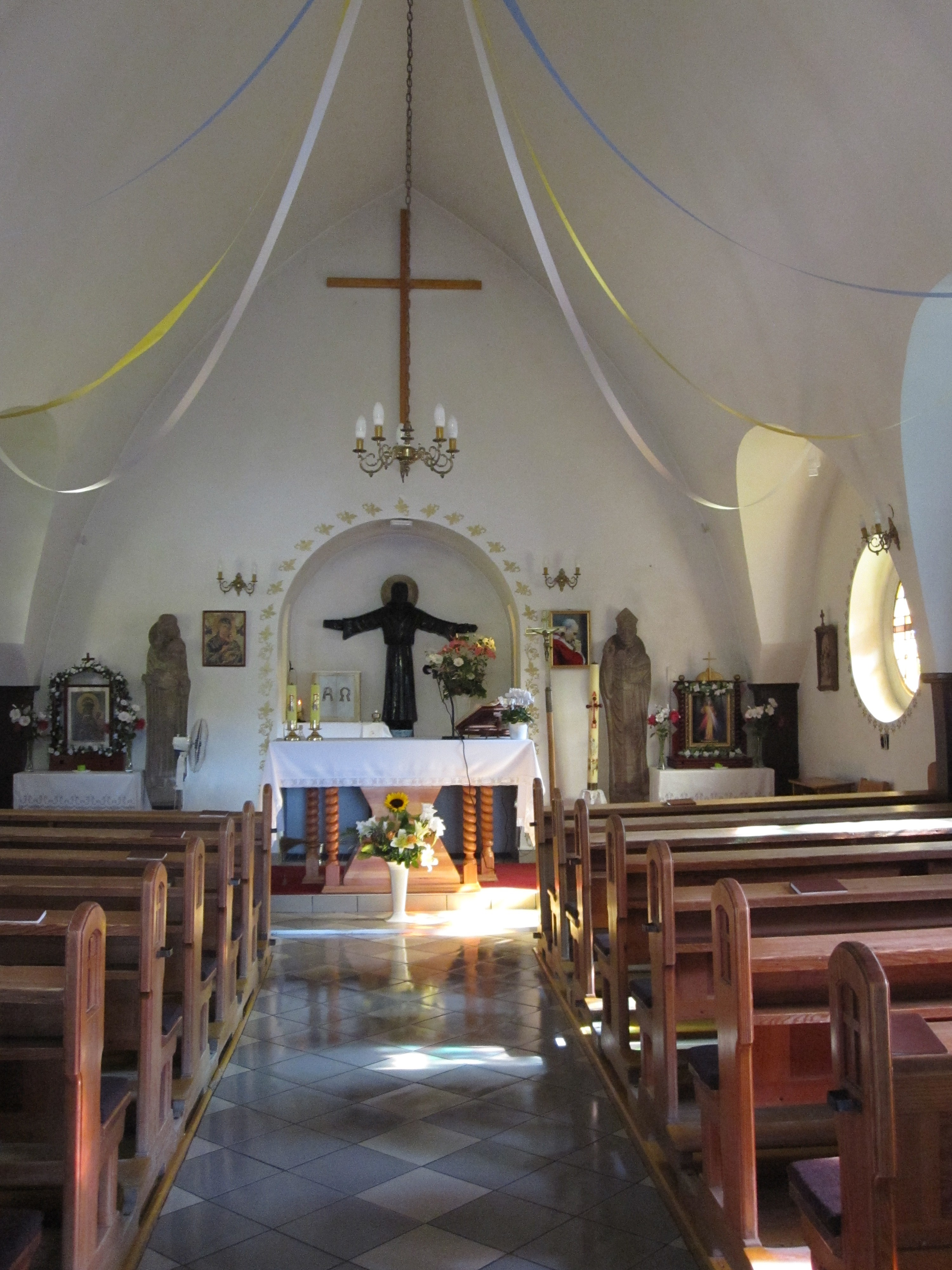 Saint Boniface church in Rybno